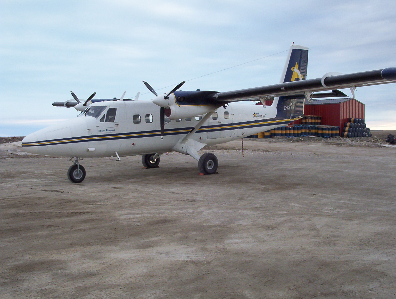 C-GFYN Adlair Aviation Ltd. de Havilland Twin Otter (DHC6) 200 Series at Cambridge Bay Airport, Nunavut, Canada.